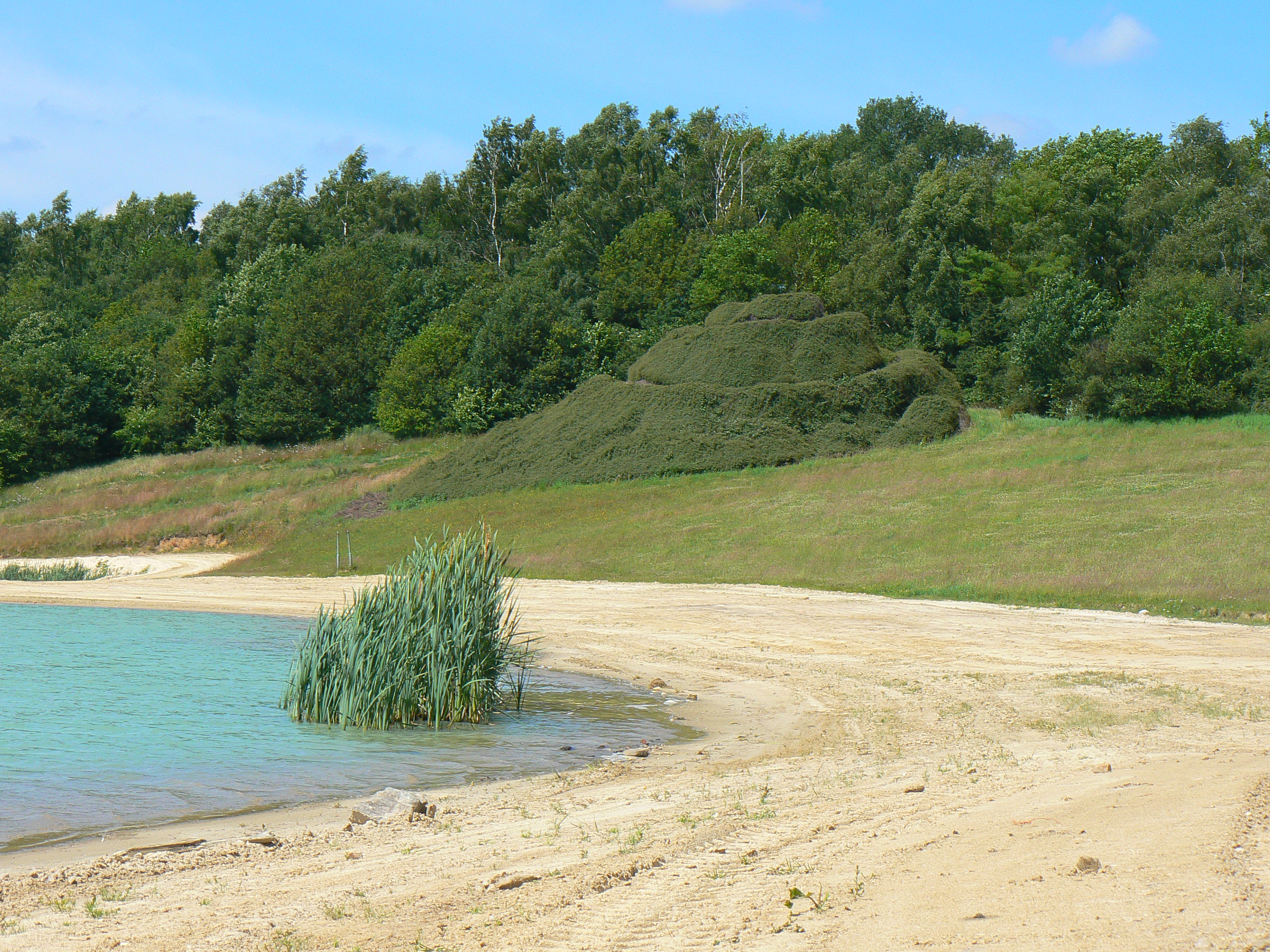 Broken Circle and Spiral Hill (1971) by Robert Smithson in Emmen/The Netherlands